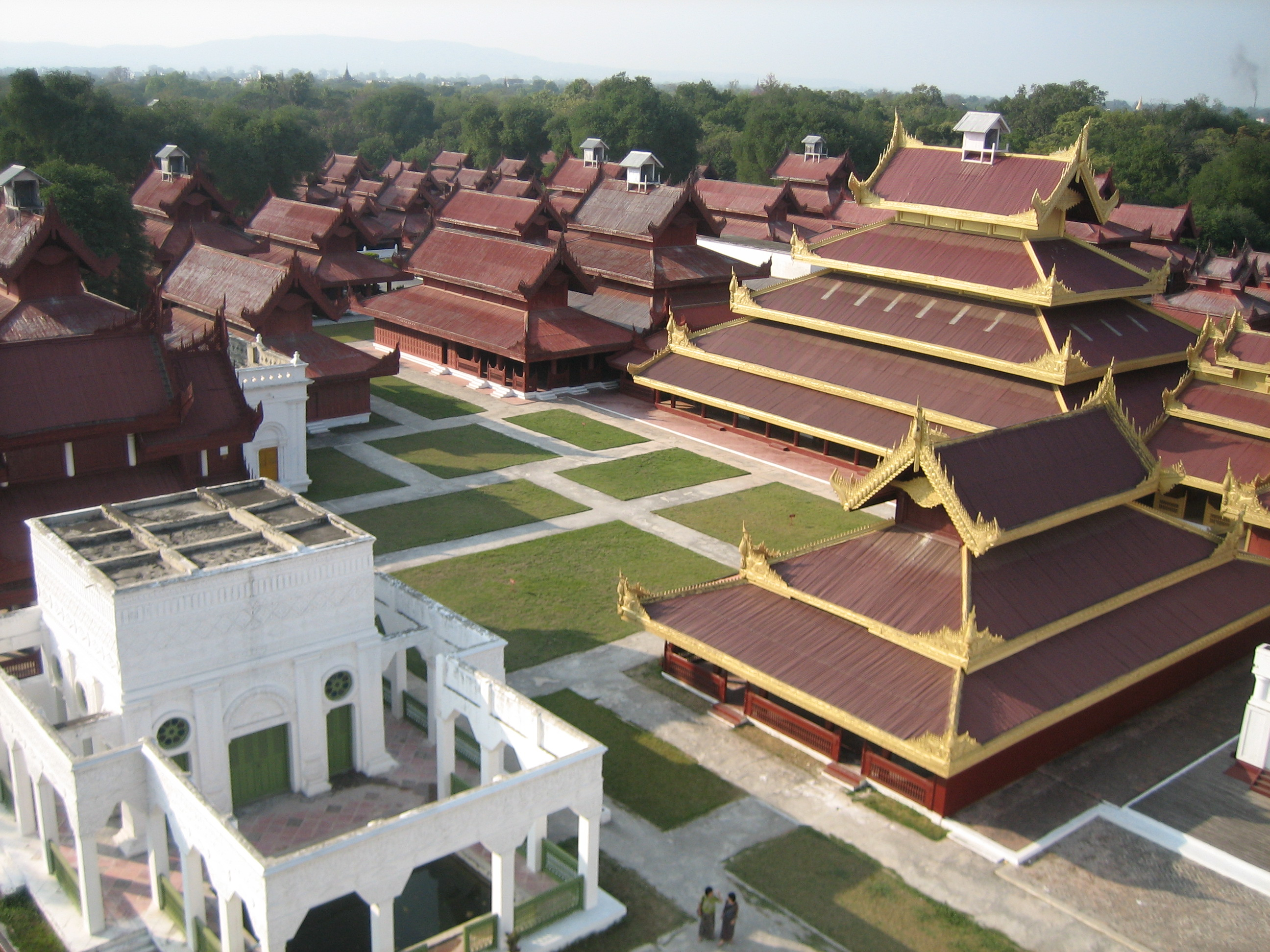 Mandalay Royal Palace View from Watch Tower